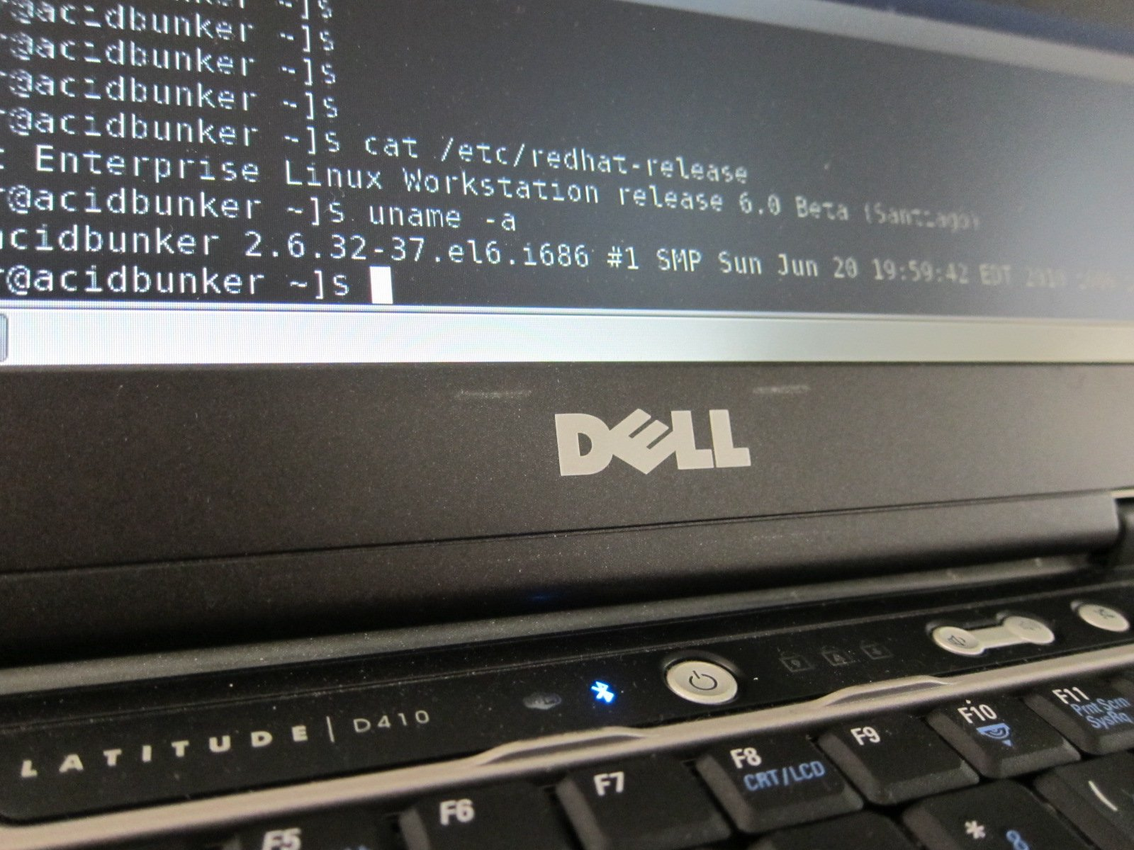 Dell Latitude D410 laptop running Red Hat Enterprise Linux (RHEL) 6 beta 2, with Linux kernel 2.6.32.